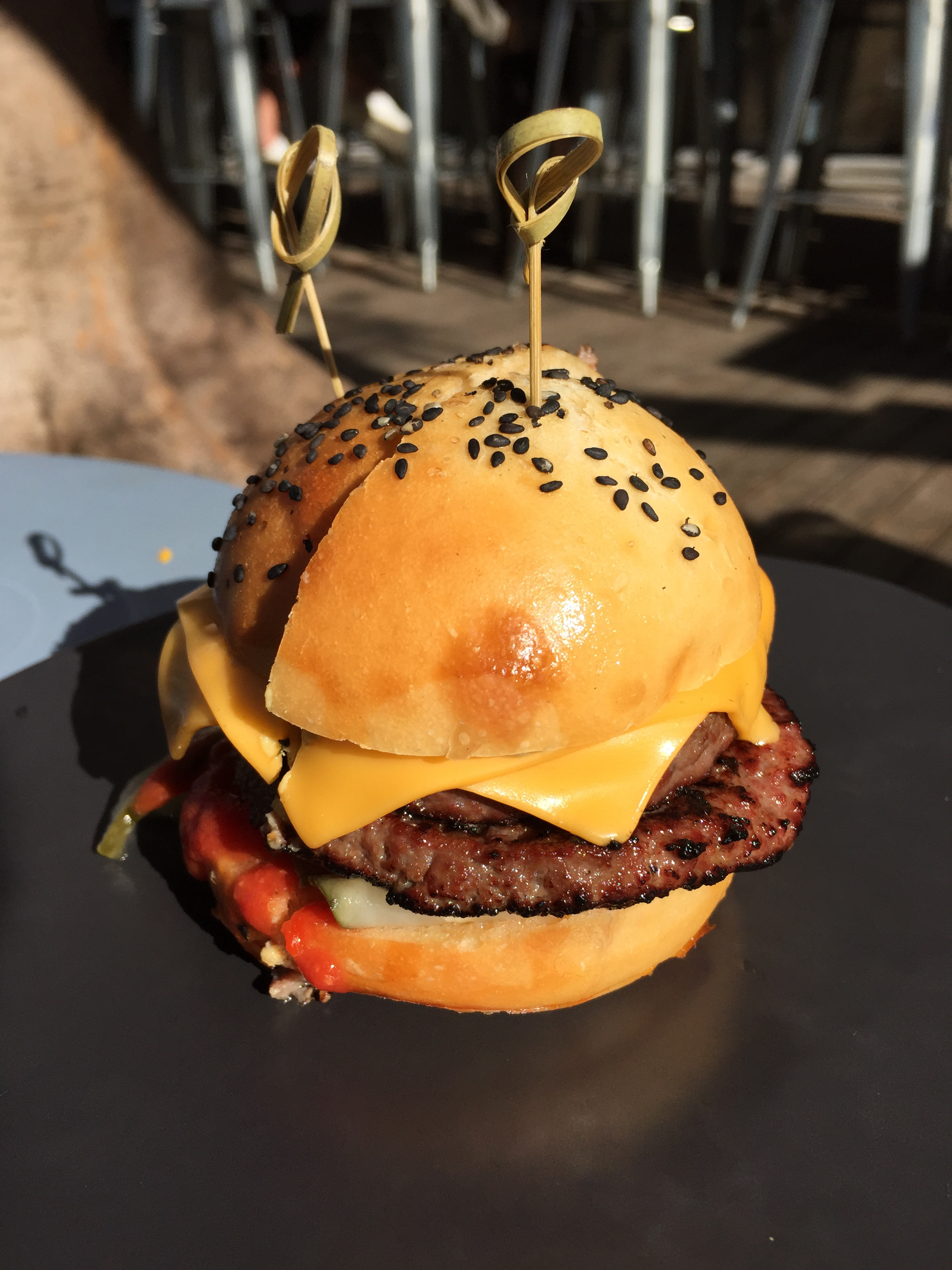 Hamburger at the Gerard's Bar, James St, Fortitude Valley, QLD